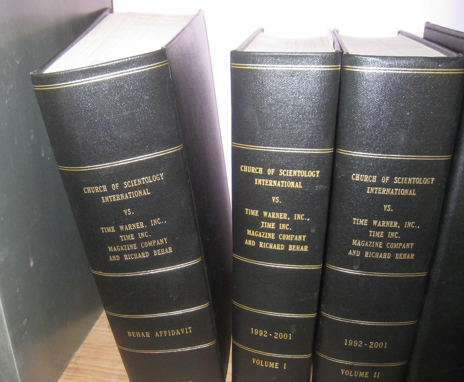 Bound volumes of public domain documents from United States federal court proceedings, in litigation related to TIME magazine article, "The Thriving Cult of Greed and Power"